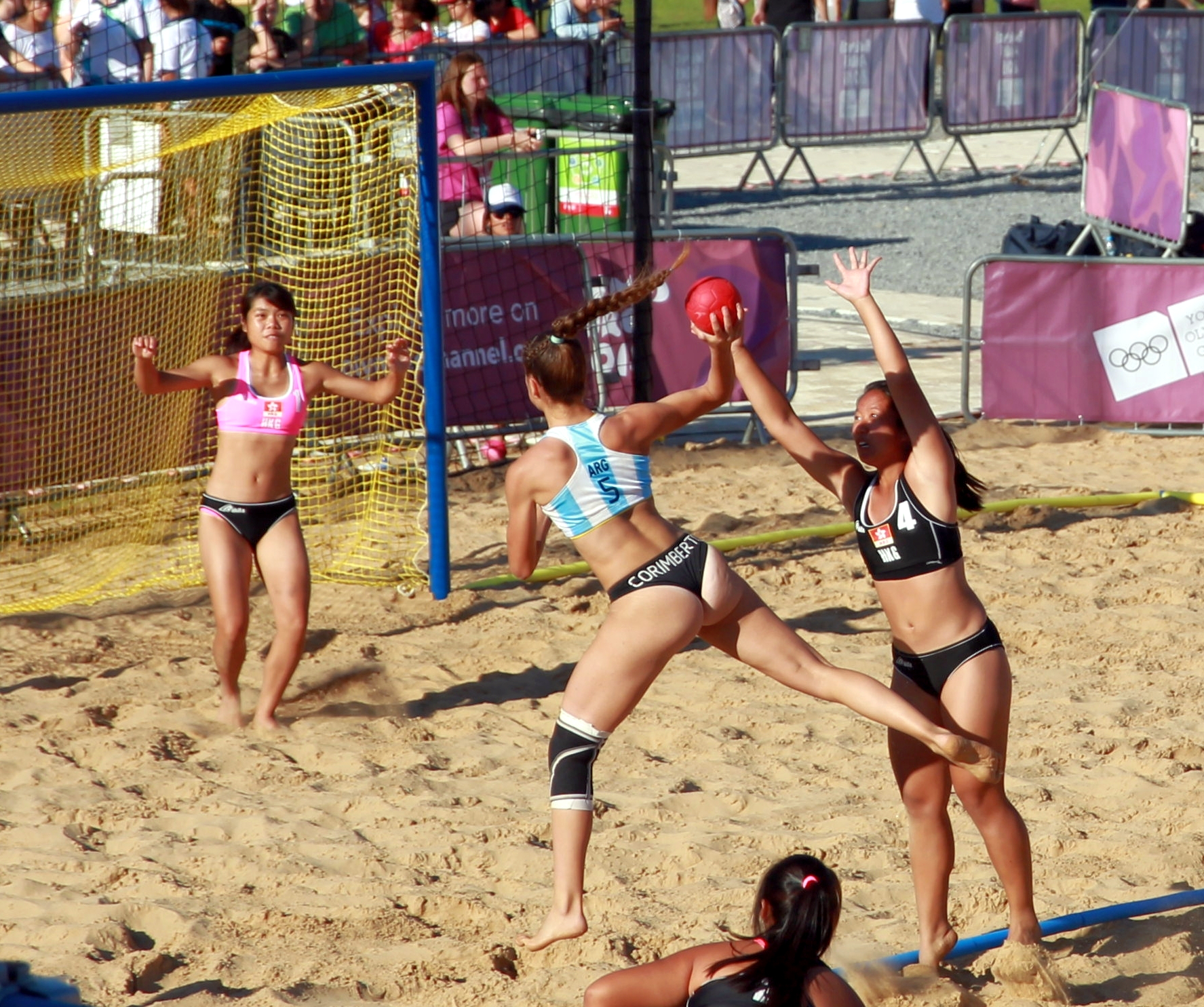 Beach handball at the 2018 Summer Youth Olympics at 9 October 2018 – Girls Preliminary Round Group B – Argentina-Hing Kong 2:0